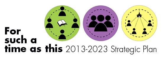 The Metropolitan New York Synod Strategic Plan